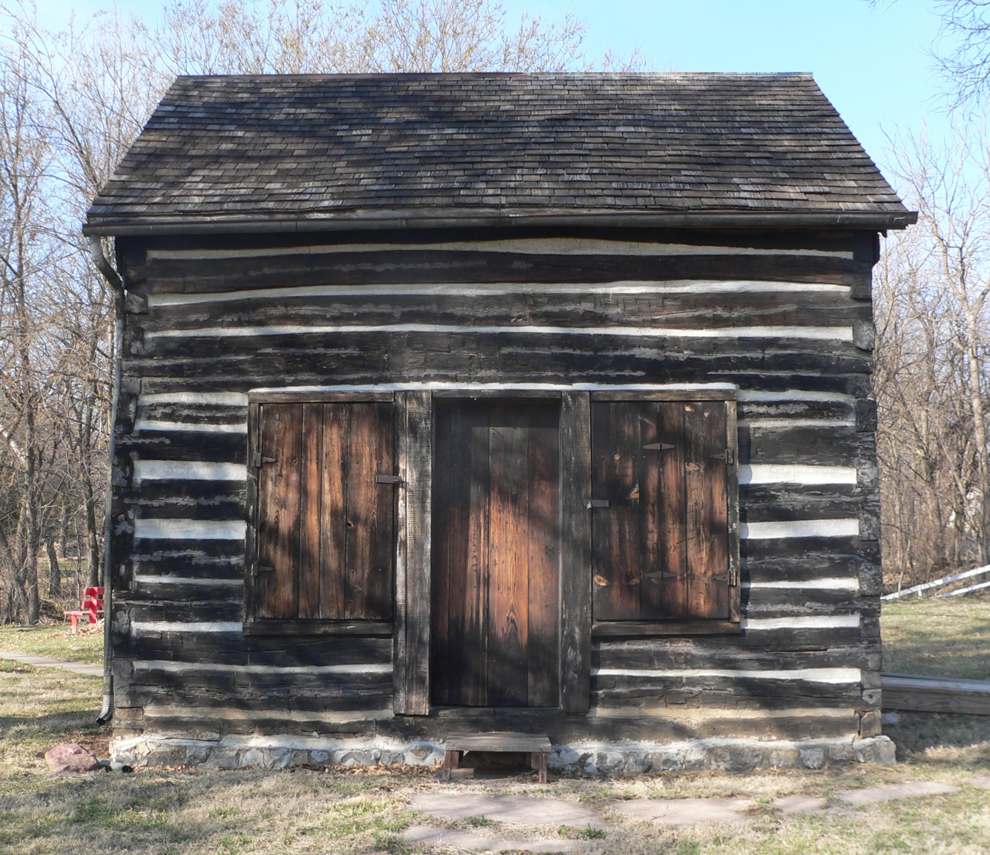 Mayhew Cabin, located at 2012 4th Corso in Nebraska City, Nebraska; seen from the south.